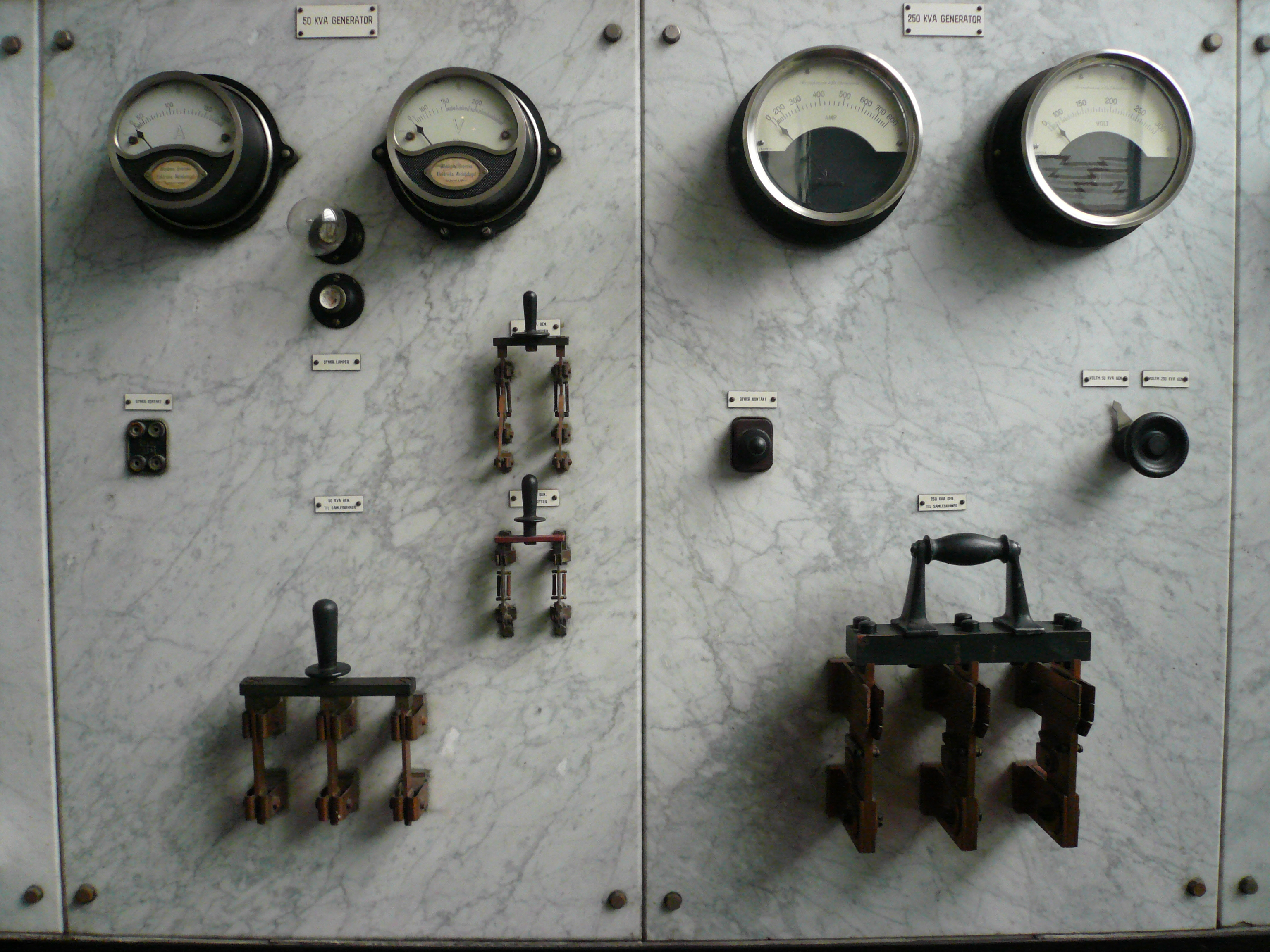 Tyssedal hydroelectric powerplant, control panel.